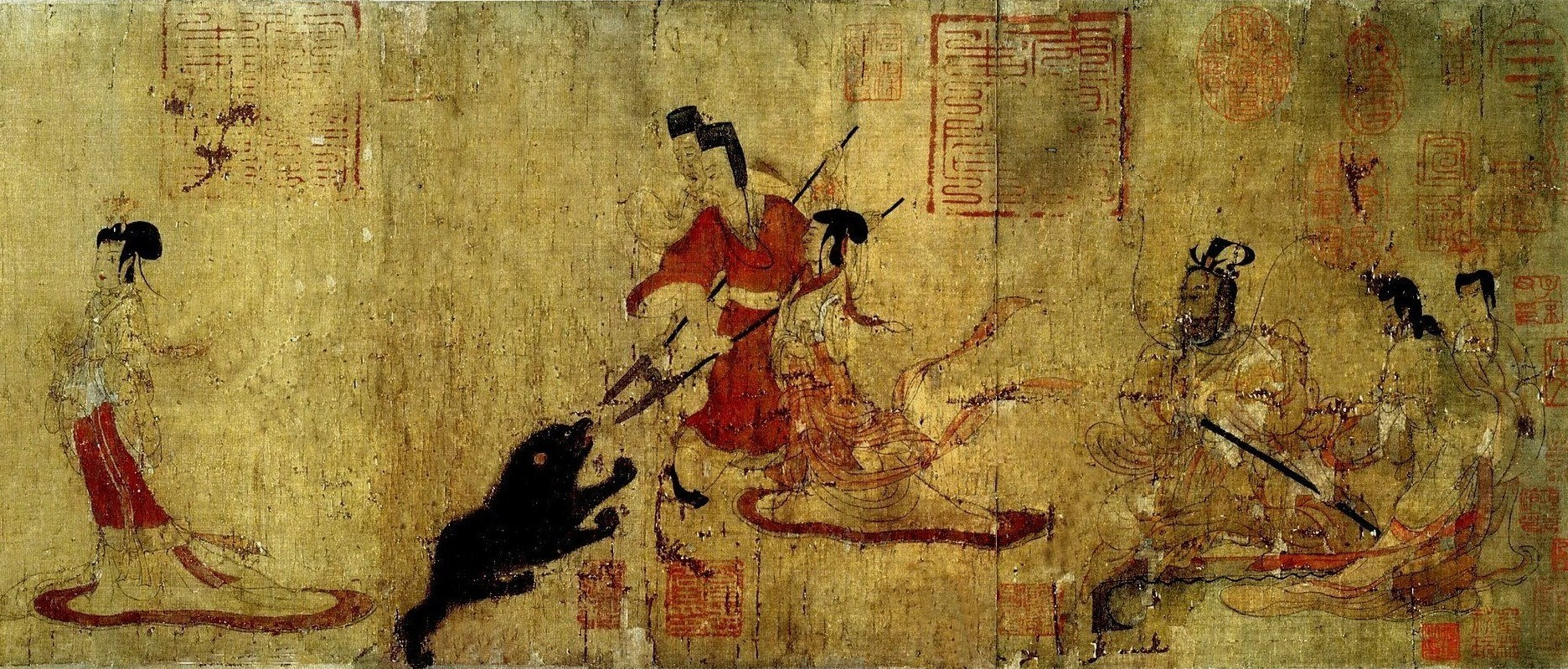 Scene 4 (Lady Feng and the bear) of the British Museum copy of the "Admonitions Scroll", attributed to Gu Kaizhi.